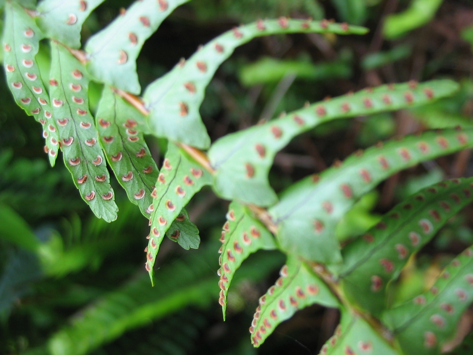 Nephrolepis cordifolia - Sori